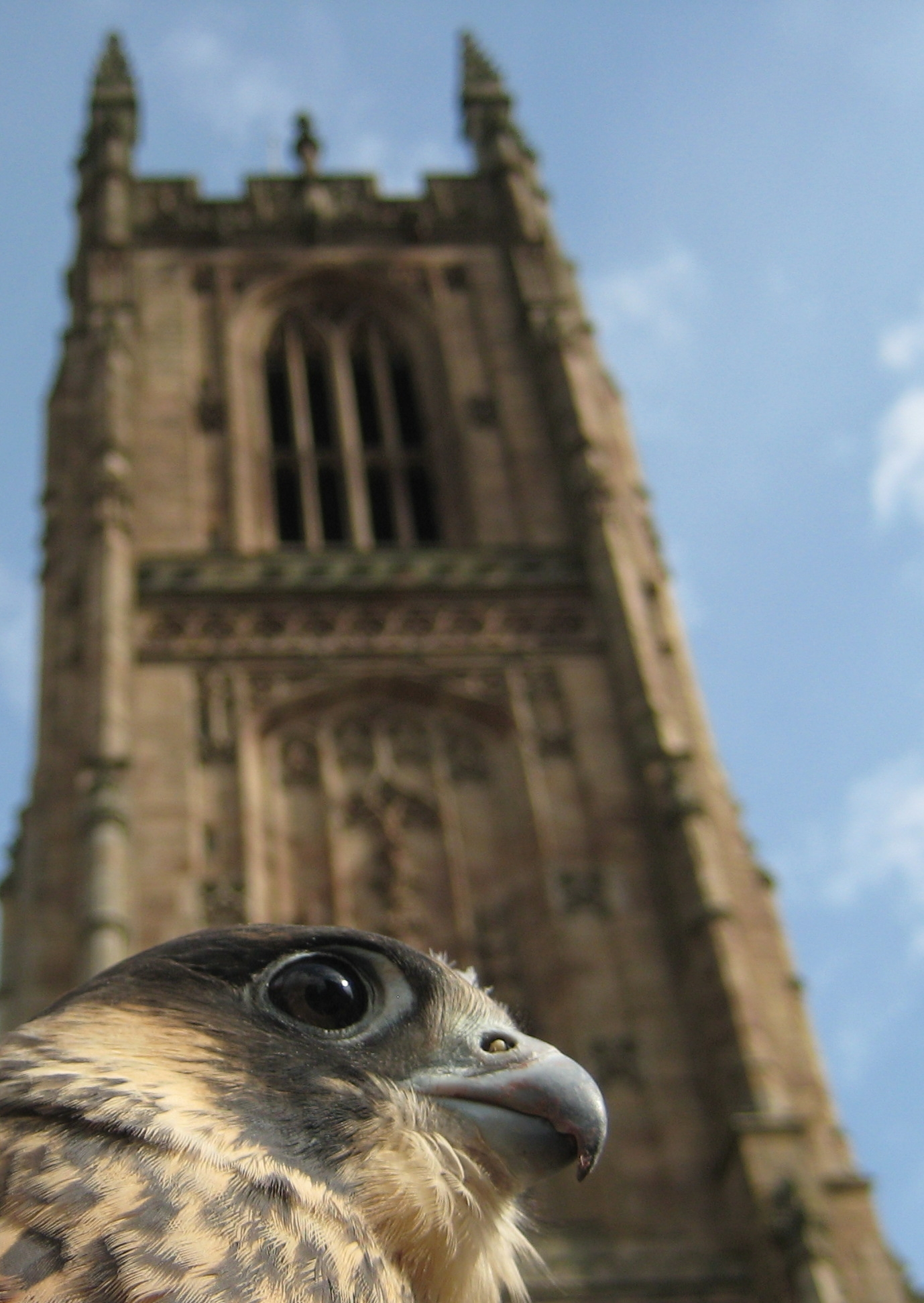 Juvenile male peregrine falcon outside Derby Cathedral, England. The bird (ring no.005) had failed to remain aloft after fledging from an artificial nest ledge on the Cathedral tower. It was captured and returned to the tower by members of the Derby Cathedral Peregrine Project who had installed a nest ledge and webcameras in 2006.